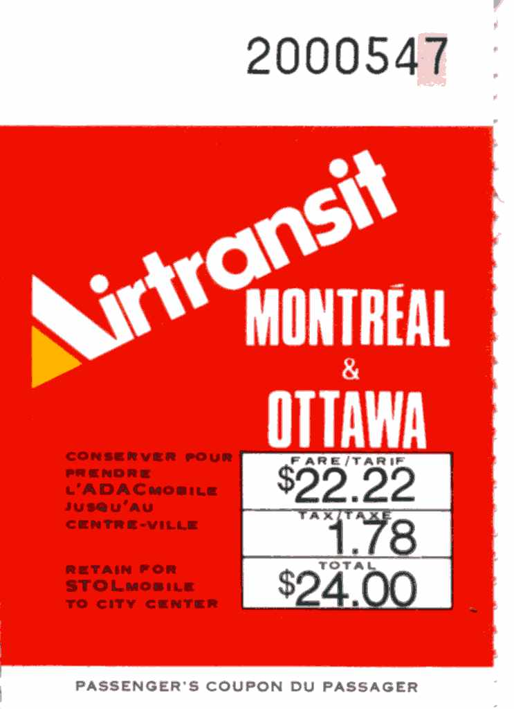 Canada. Airtransit one way ticket on the route Montreal - Quebec on August 1975.